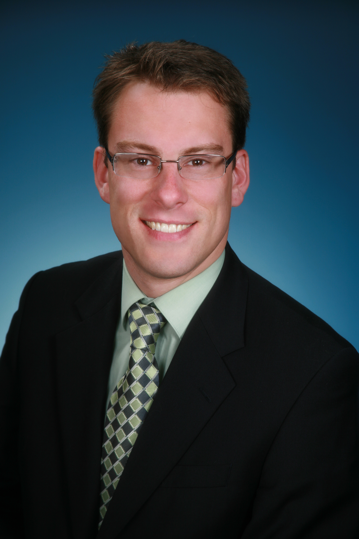 Hans Zeiger running for House of Representatives in the 25th District of Washington